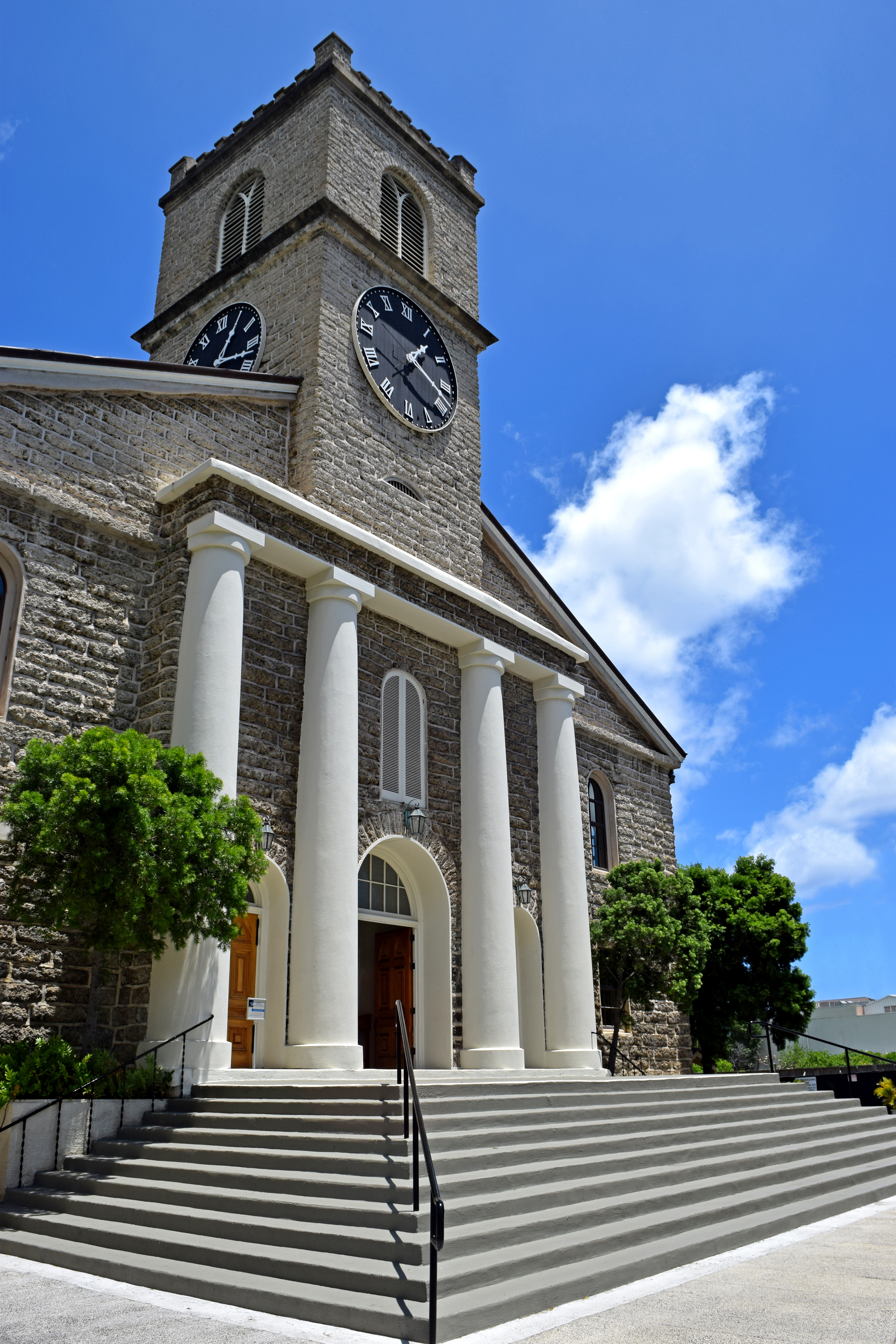 Kawaiaha'o Church